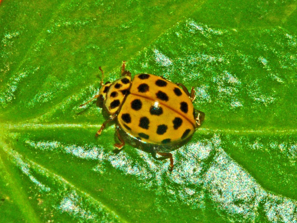 Psyllobora vigintiduopunctata. Vi Superiore, Genova, Italy